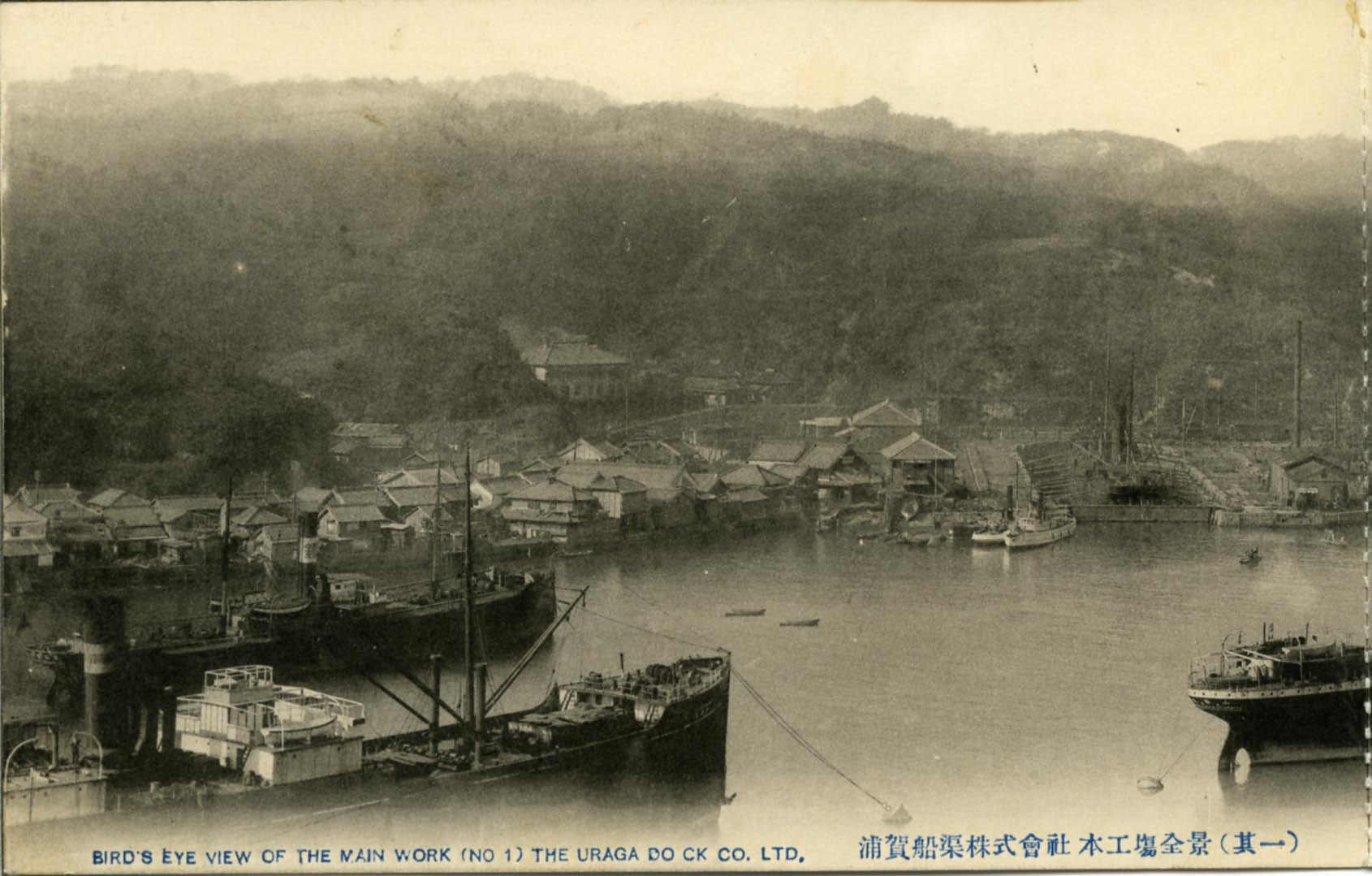 Commemorative postcard showing Uraga Dock Company, Kanagawa